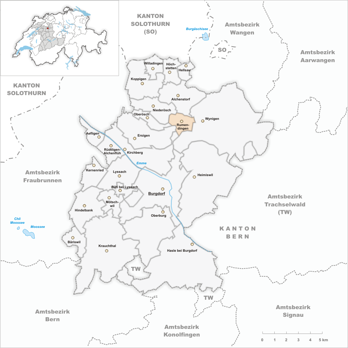 Municipality Rumendingen